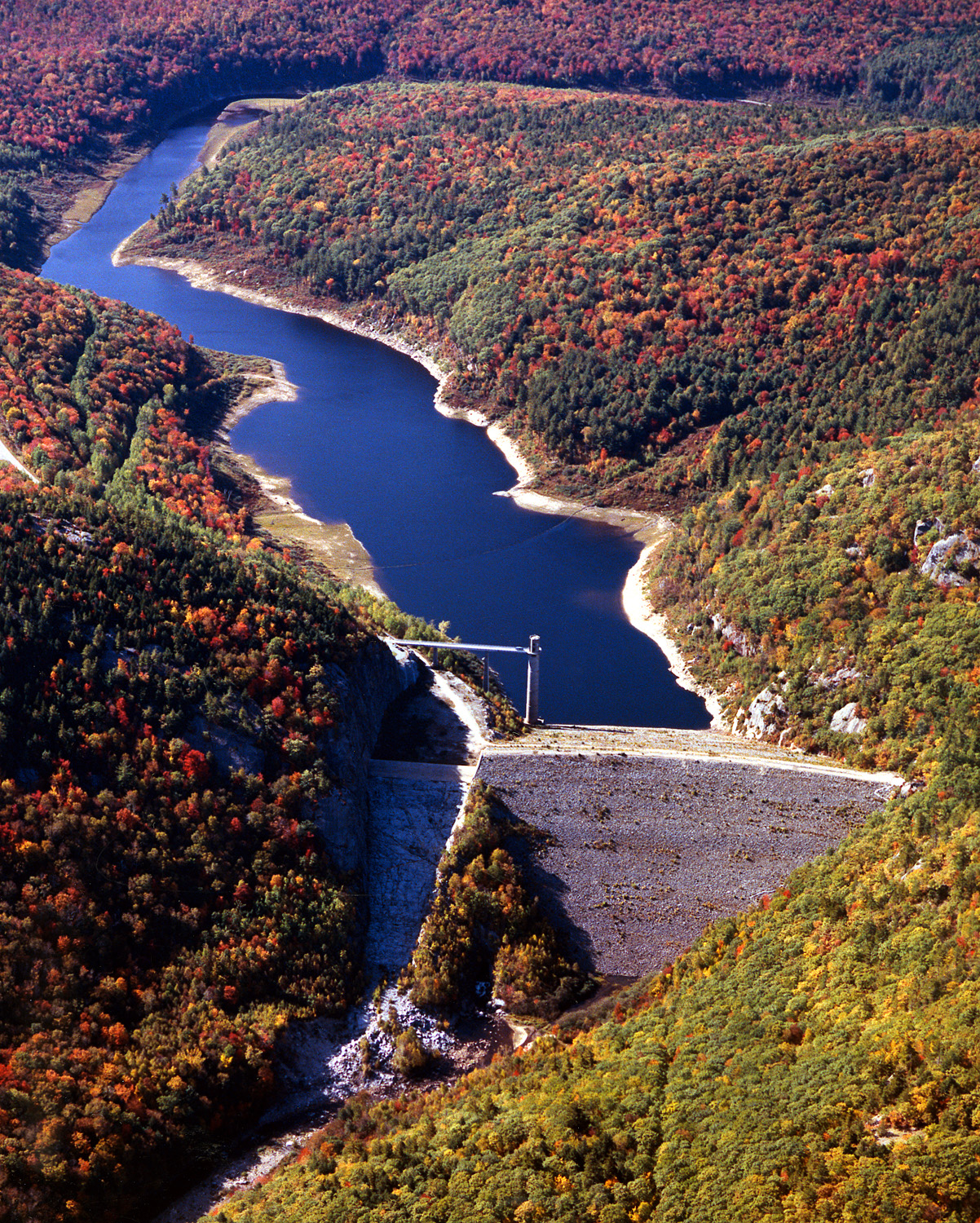 Ball Mountain Lake and Dam in Windham County, Vermont, USA. The U.S. Army Corps of Engineers constructed the dam on the West River for flood control.